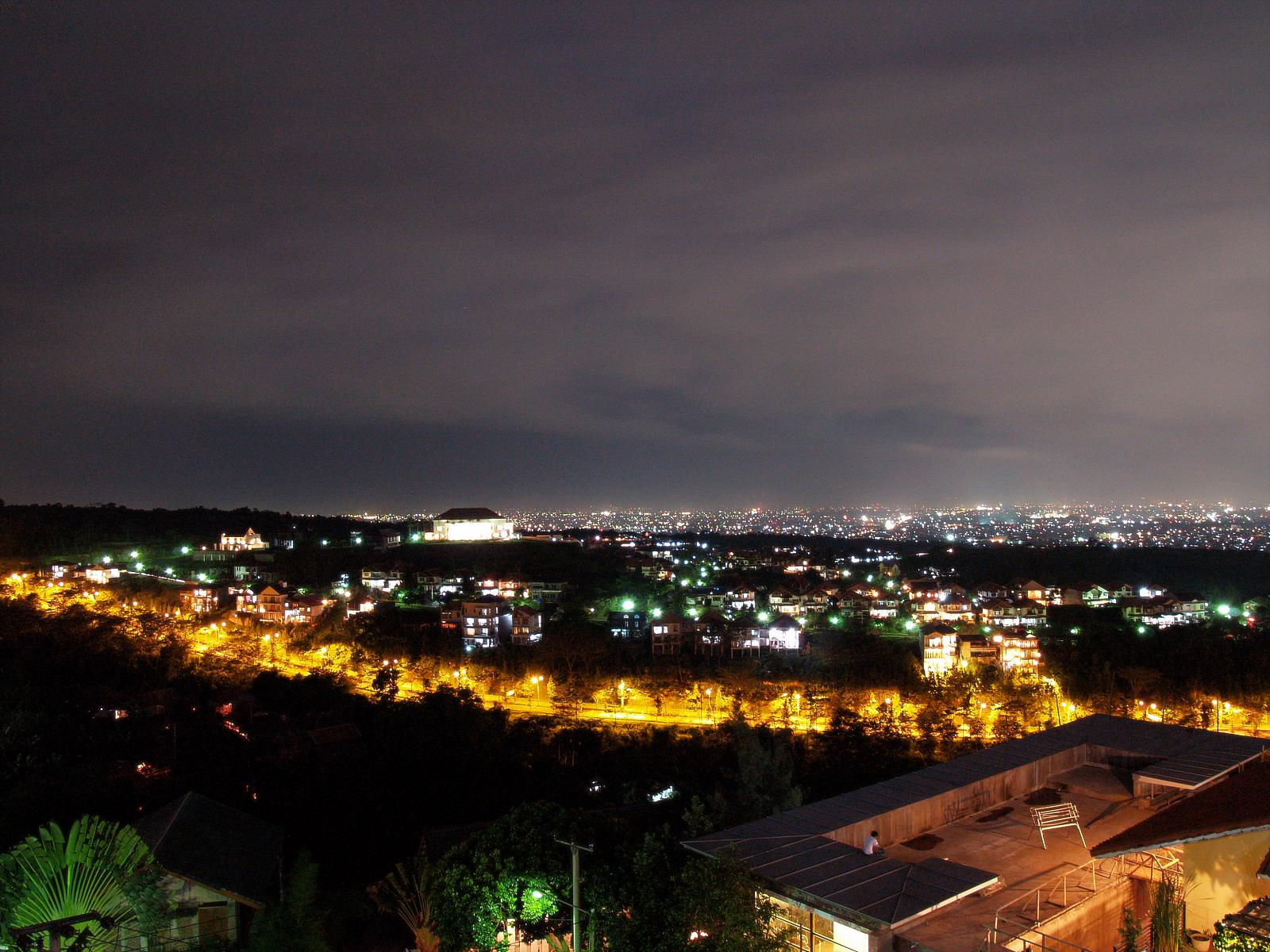 After the trip to Bogor, we went to Gampoeng Acheh Restaurant to have our dinner. It's situated on the hills just on the edge of Bandung. You can see all the big houses over here and most of the exclusive restaurants are on this hill too.